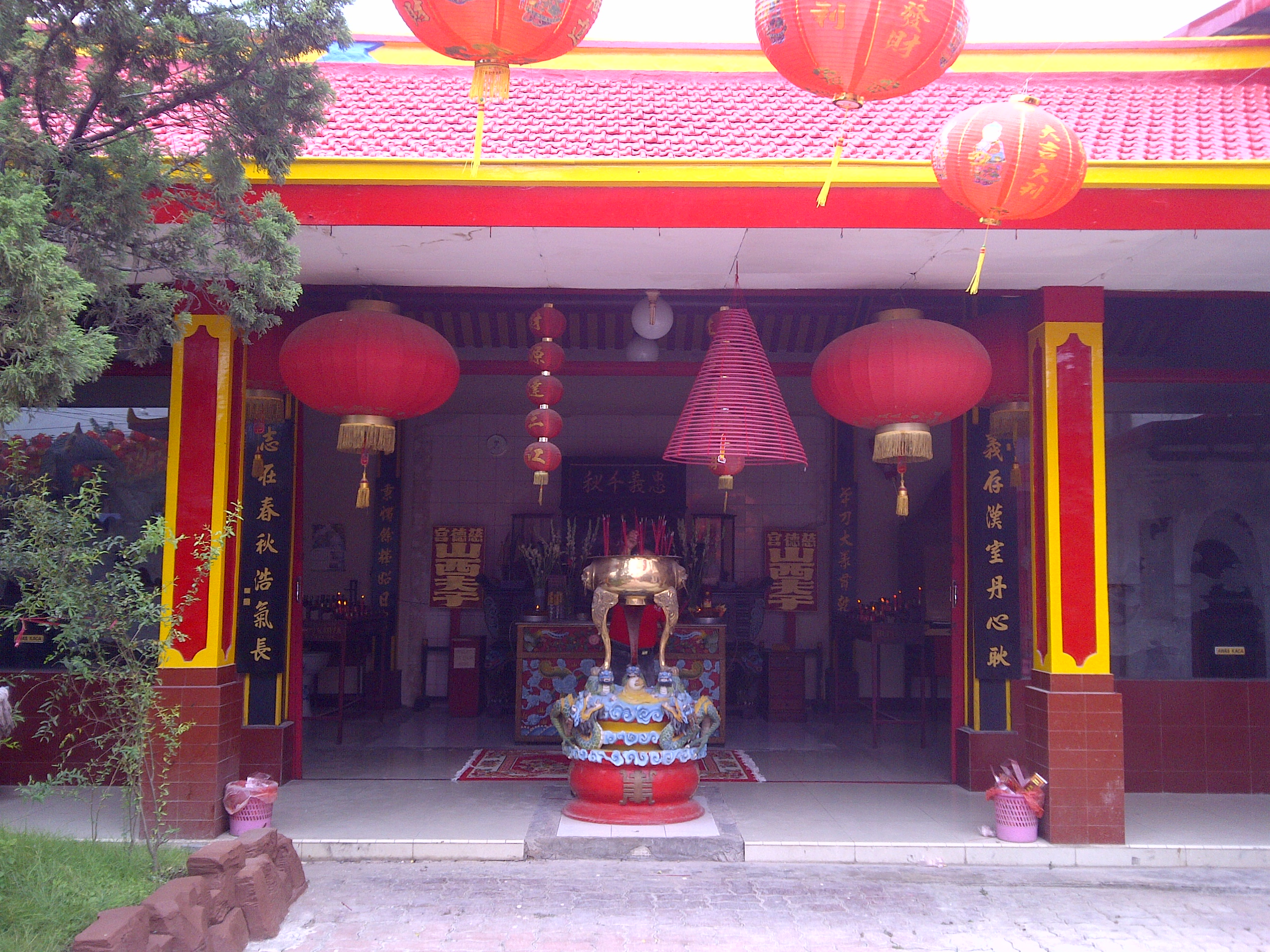 The right wing of Tjoe Tik Kiong Temple, Pasuruan, East Java, Indonesia